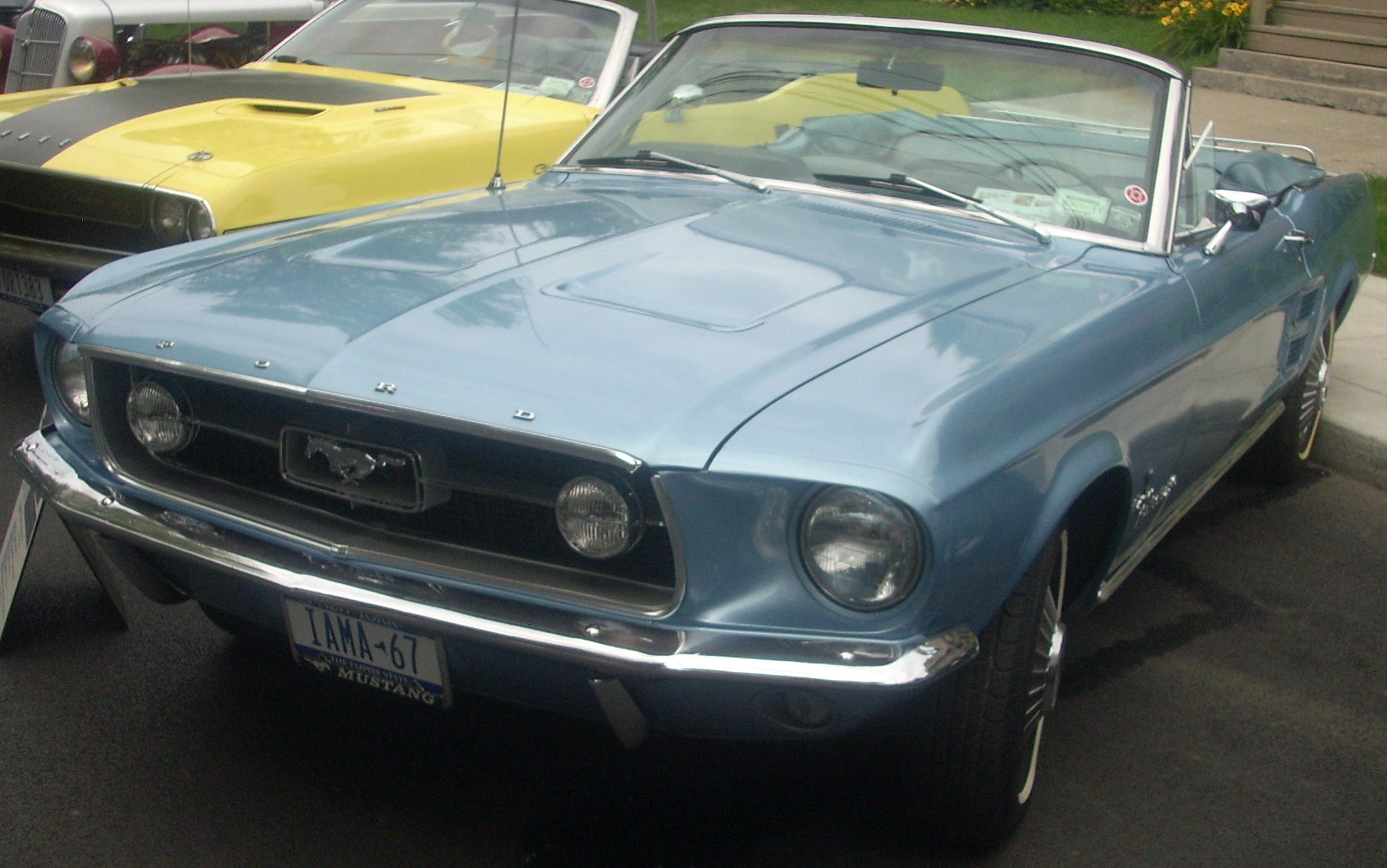 1967 Ford Mustang photographed in Ste. Anne De Bellevue, Quebec, Canada at Cruisin' At The Boardwalk 2010.